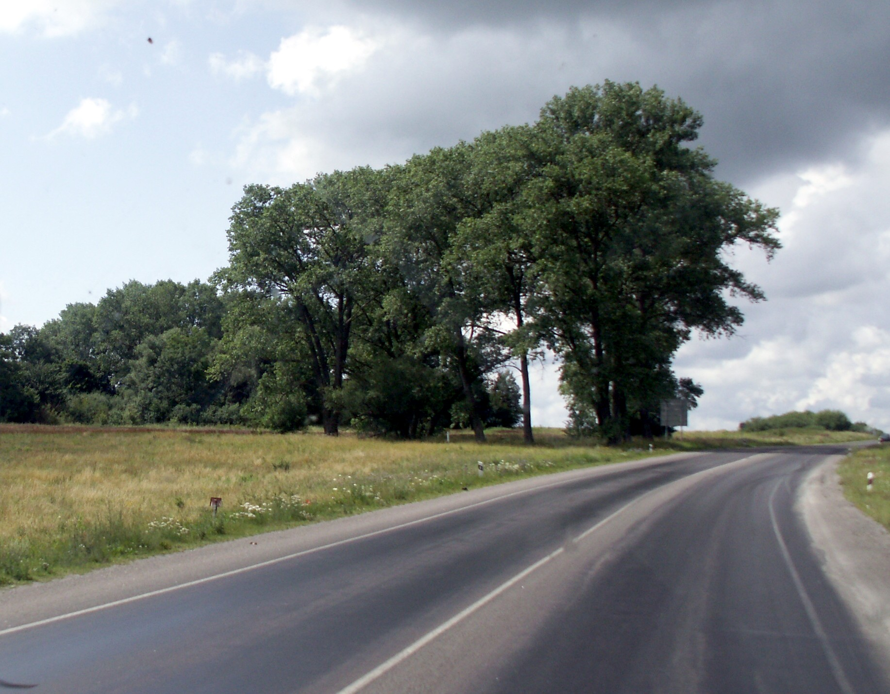 Marjino, Kaliningrad oblast